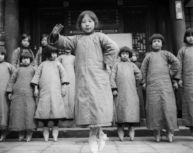 Young girls who suffered through foot binding in Beiping in the Republic of China. This file is a superior version of "File:Theatre school's model student.jpg".